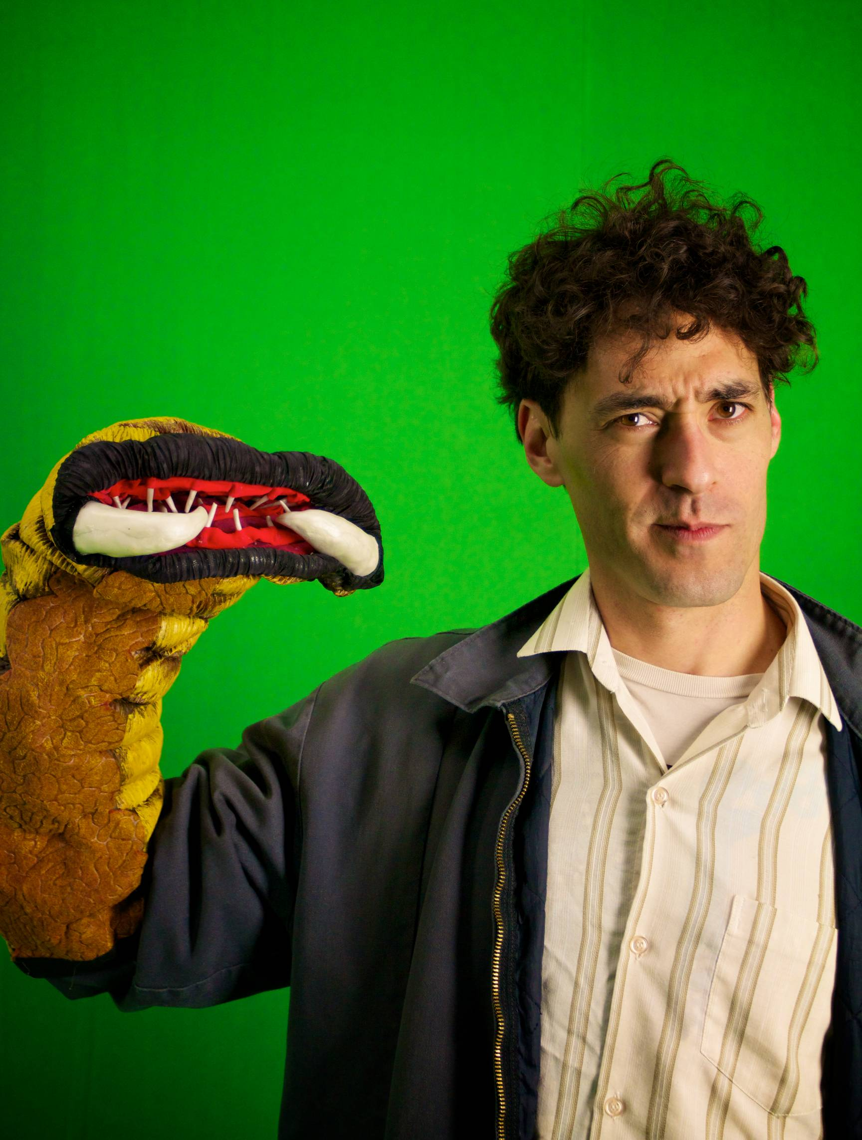 Scotty Iseri and puppet "Andrew"